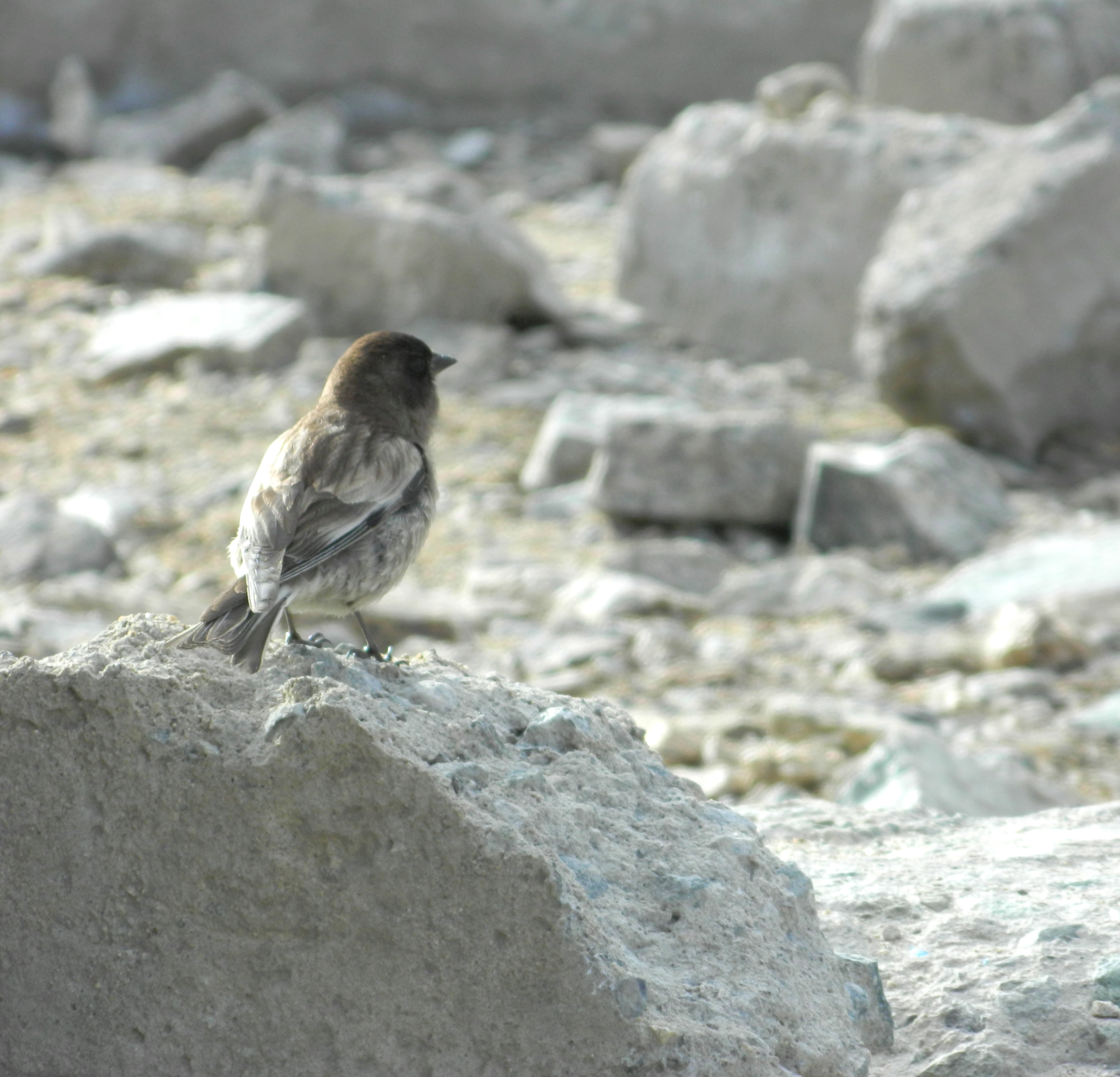 Brandt's mountain finch, Khardung-La, Ladakh, India